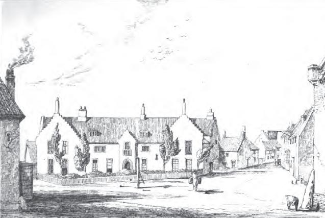 Illustration of Gresham's School, Holt, from John William Burgon's The Life and Times of Sir Thomas Gresham (1839) "from a sketch made on the spot in 1838".